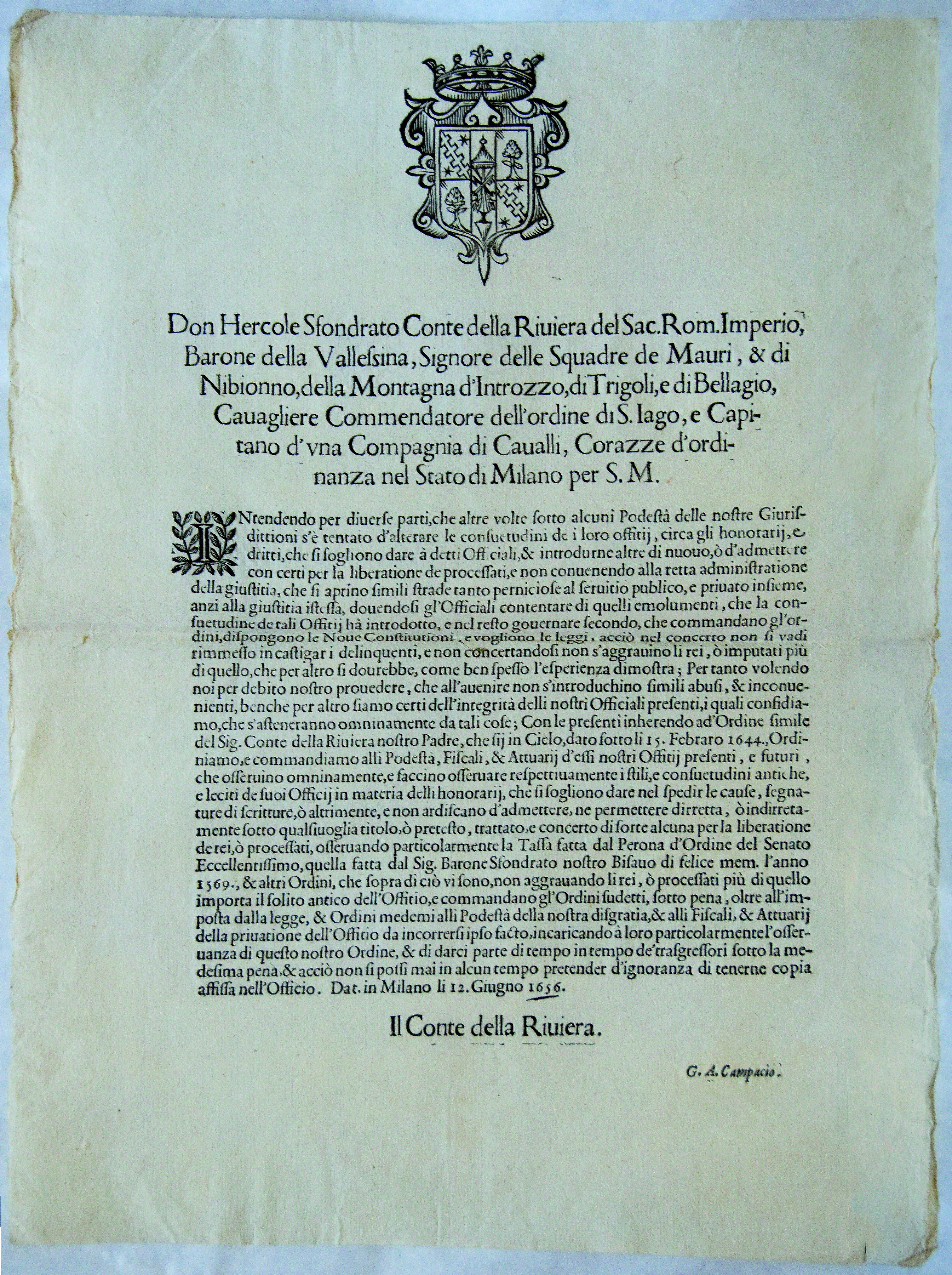 Photos of documents of Archivio Pietro Pensa made by Rockefeller Foundation, Studio Grafico Sintesi for the Rockefeller Foundation Bellagio Center 50th celebration. Photos made in 2009.